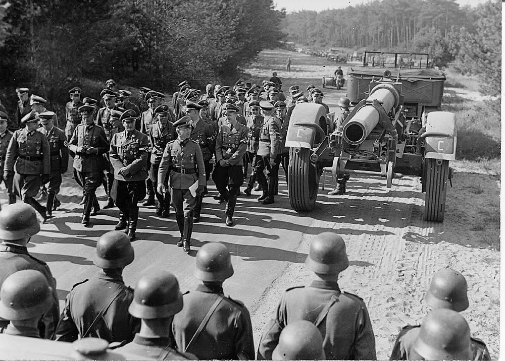 Artillery school in Jüterbog. The Reichsjugendführer examines the artillery school in Jüterbog where he was shown a section of the artillery’s service and efforts. The photo shows heavy artillery. July 23rd 1943. Archival reference: RAFA3309_24_2.